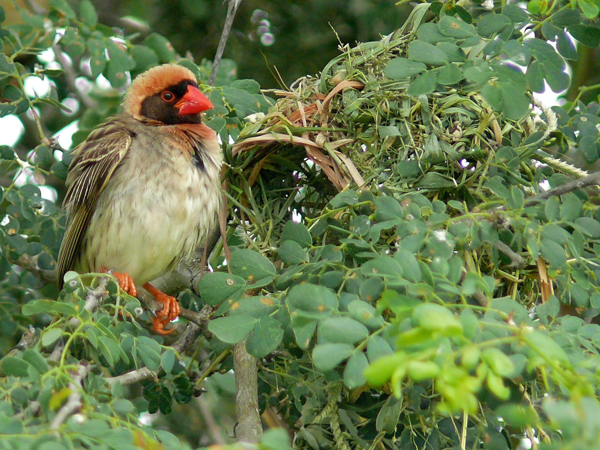 H10 South of Tshokwane, Kruger NP, SOUTH AFRICA